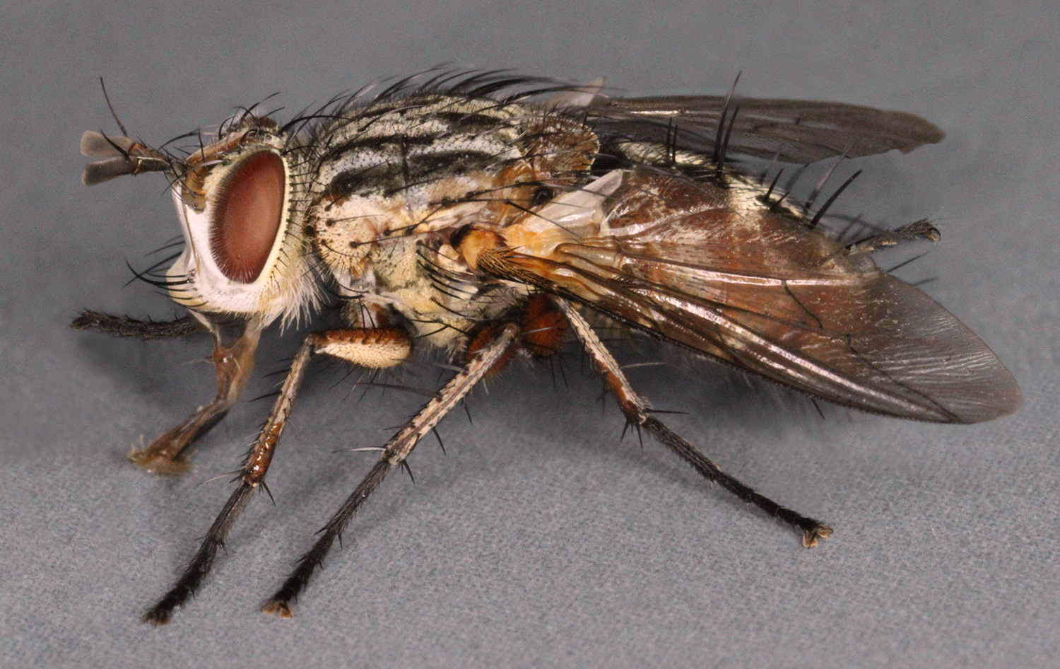 Linnaemya vulpina, Fenn's Moss, North Wales, July 2010